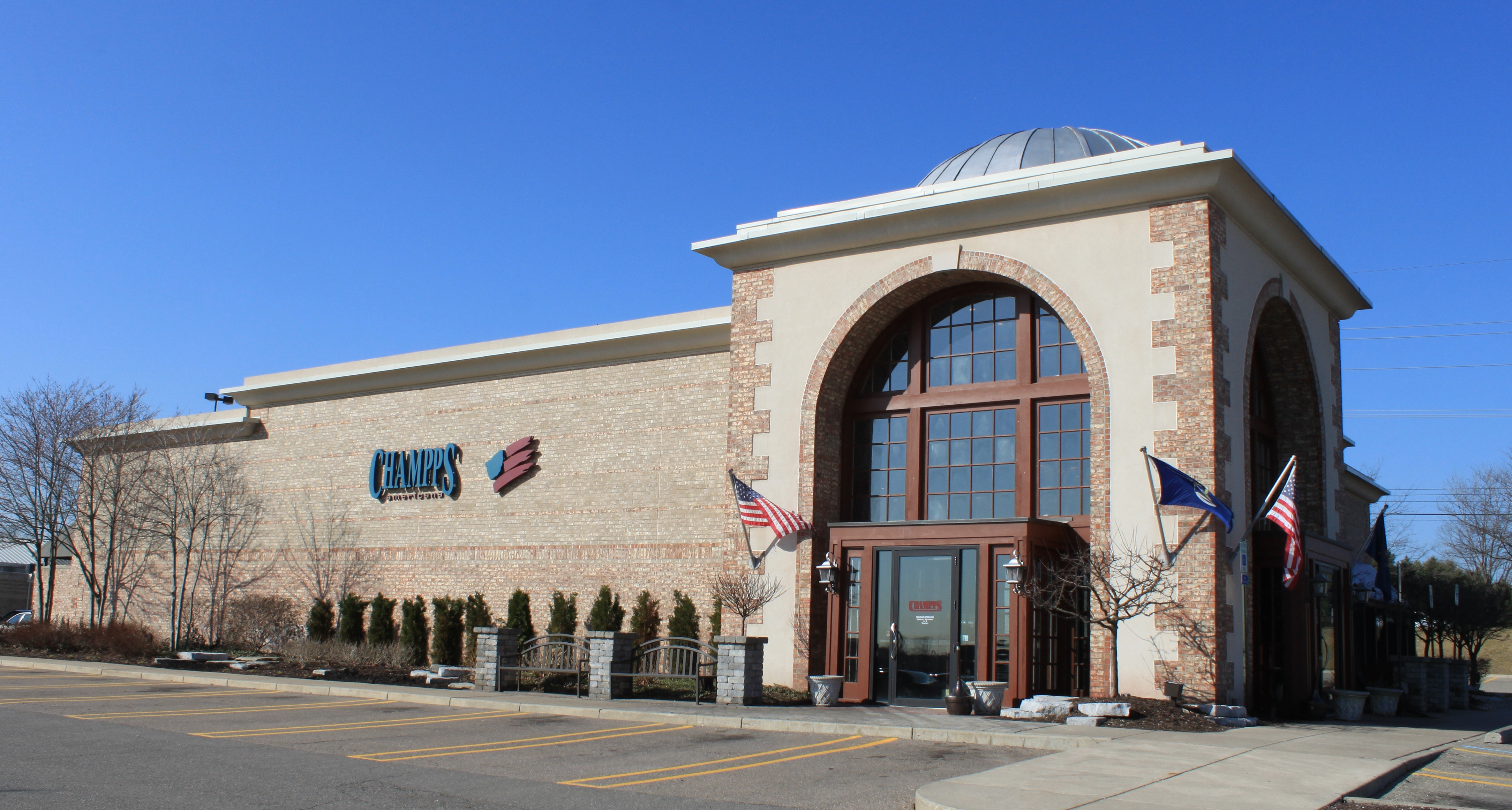 Champp's Americana restaurant, 19470 Haggerty Road, Livonia, Michigan.